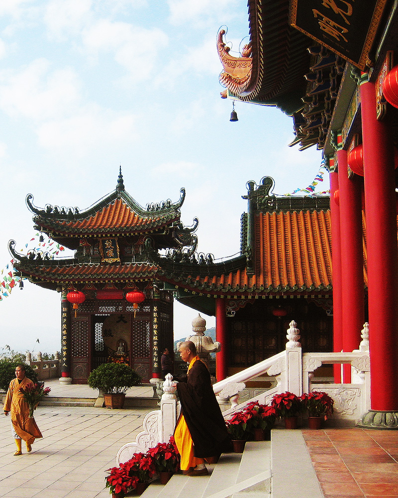 Jintai Temple in Doumen District of Zhuhai, Guangdong, China. An inner court view with clergy.